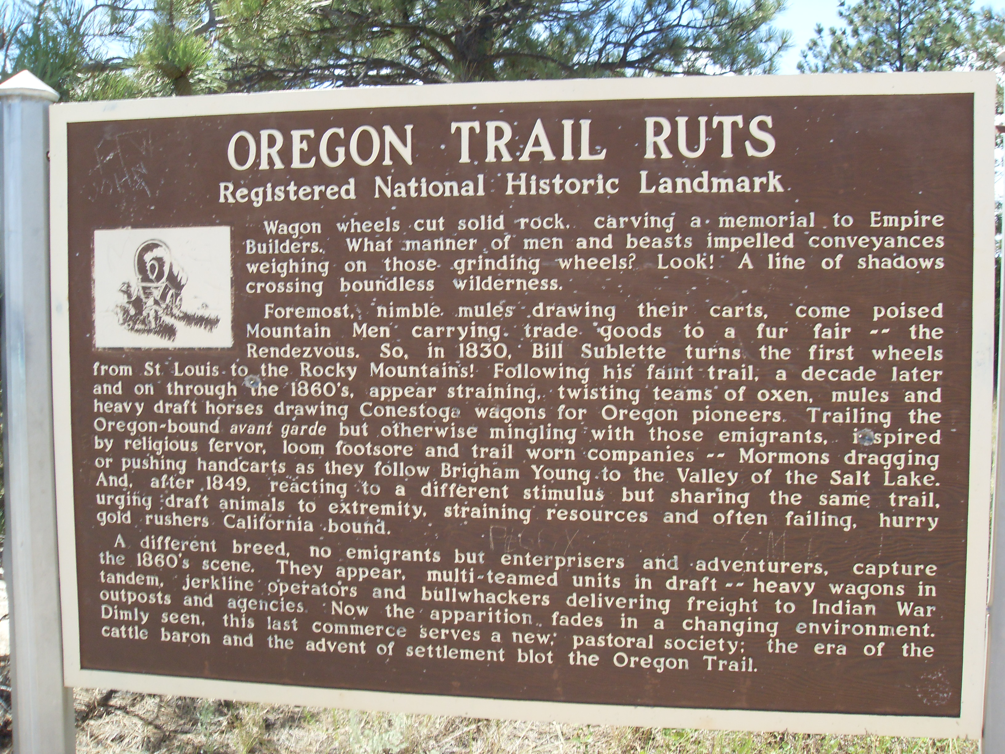 Oregon Trail Ruts: is a preserved site of wagon ruts of the Oregon Trail on the North Platte River, about .5 miles south of Guernsey, Wyoming. Sign as National Historic Landmark